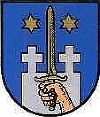 Coat of arms of Sankt Michael in Obersteiermark, Styria